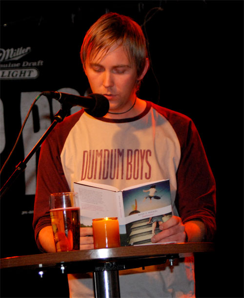 Rune F. Hjemås reading at Mono, Oslo, september 9th, 2009.